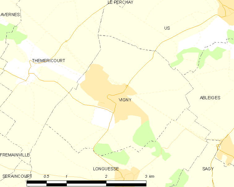 Map of French municipality Vigny